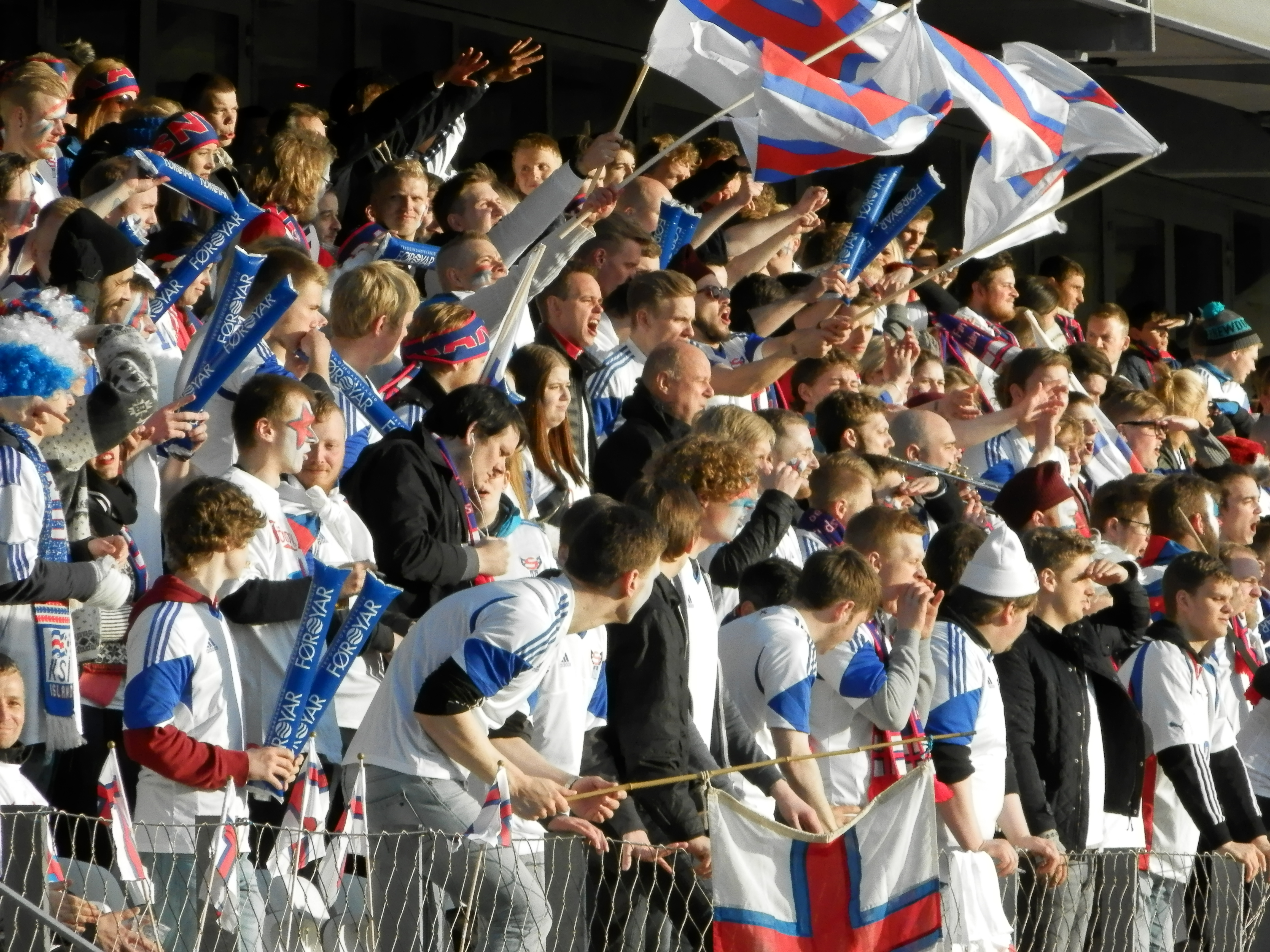 From the football match between the Faroe Islands vs Greece, played on Tórsvøllur Stadium in Tórshavn on 13 June 2015. Faroe Islands won the match 2-1.